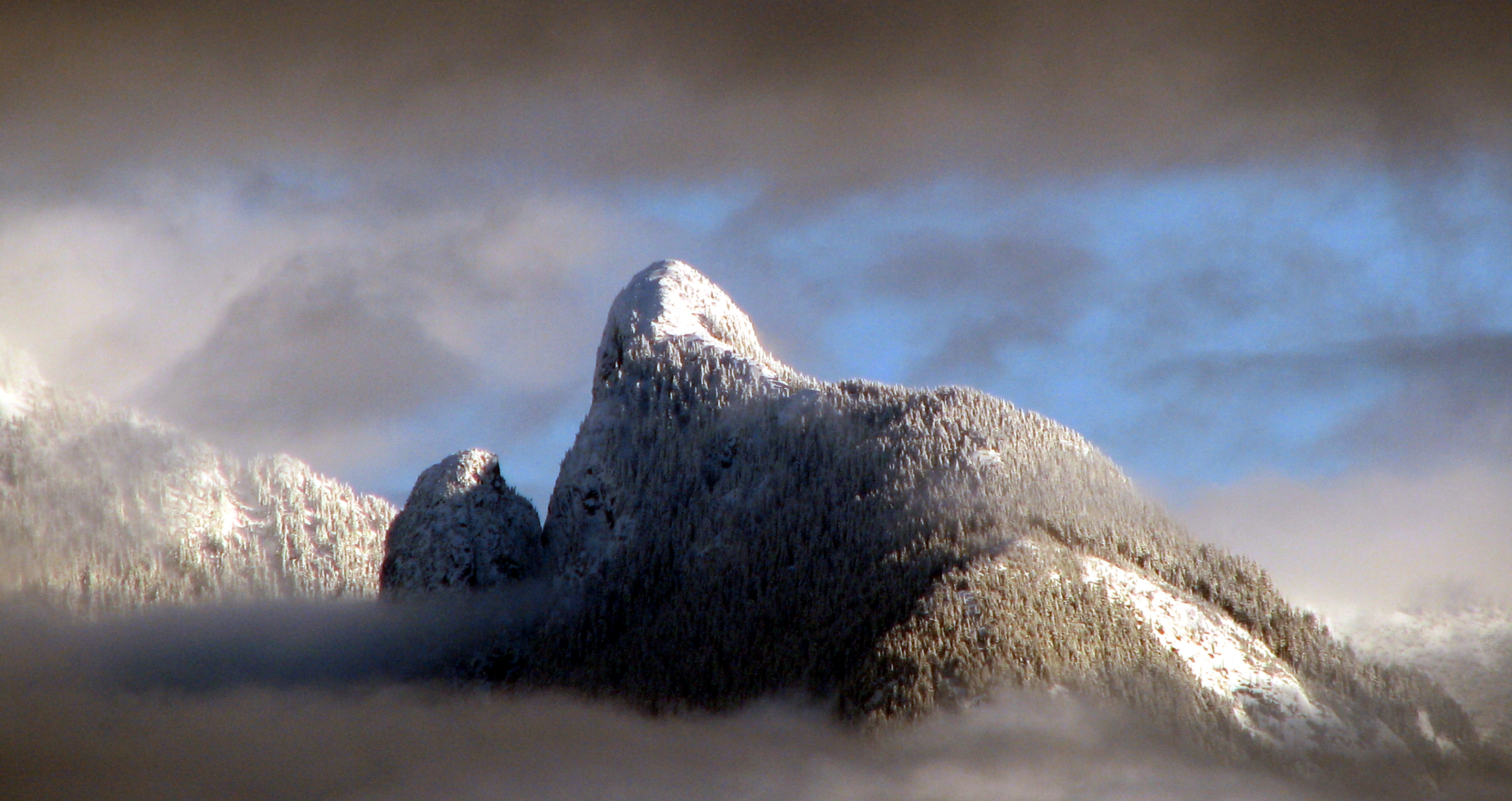 Mount Harvey (Britannia Range). Photo taken from Bowen Island BC Canada.